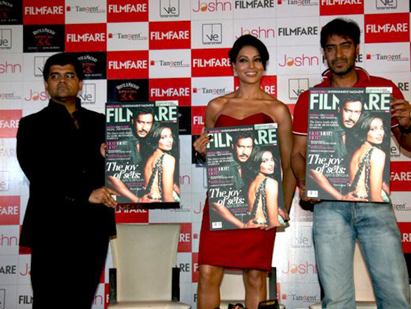 Jitesh Pillai, Ajay Devgan and Bipasha Basu at the launch of Filmfare